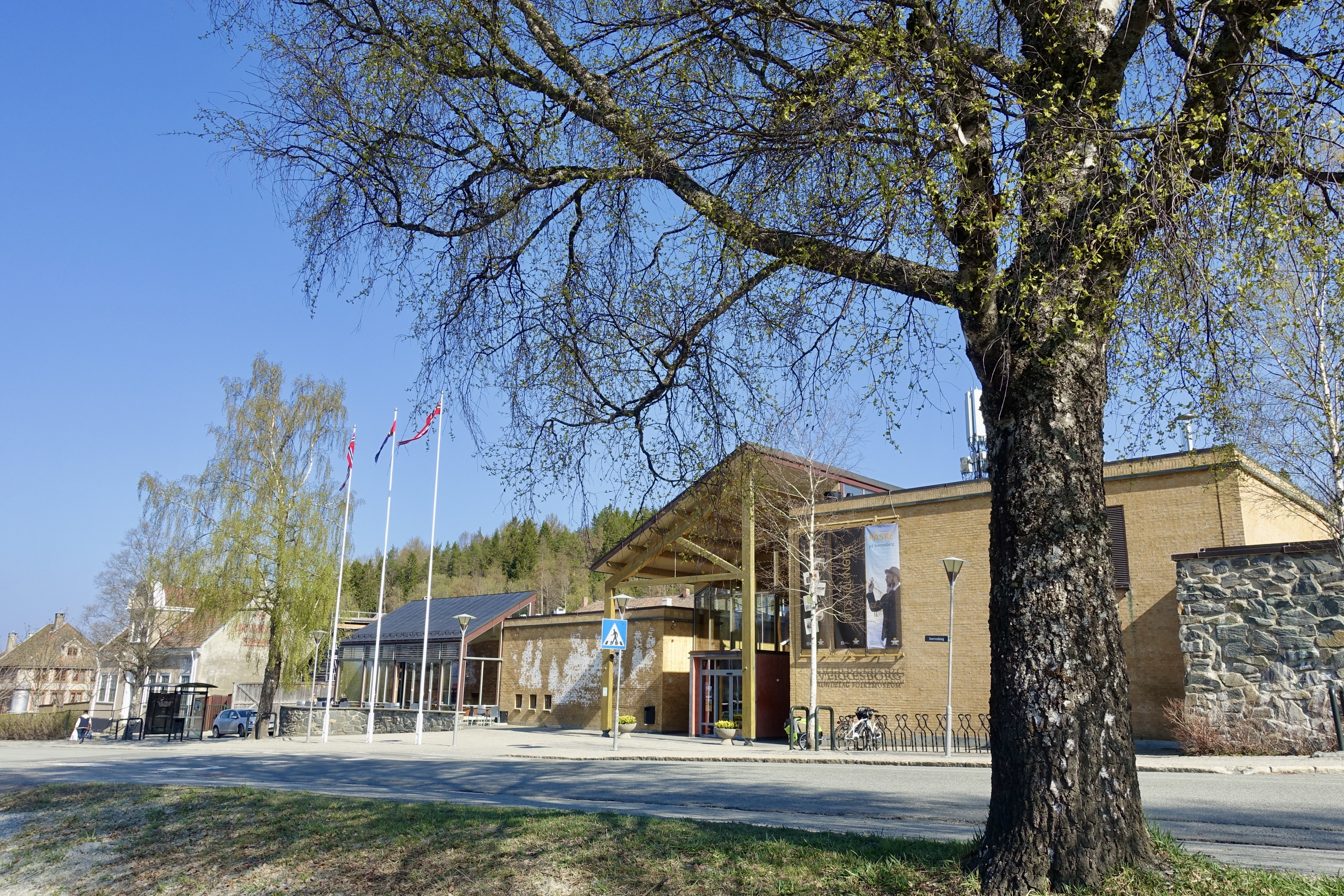 Sverresborg Trøndelag Folk Museum, an open-air and cultural history museum with more than 60 buildings, in the area surrounding the ruins of King Sverre's medieval castle (small fortress) in Trondheim, Norway. Photo showing the main entrance and visitor building, taken on a sunny spring day in April 2019.